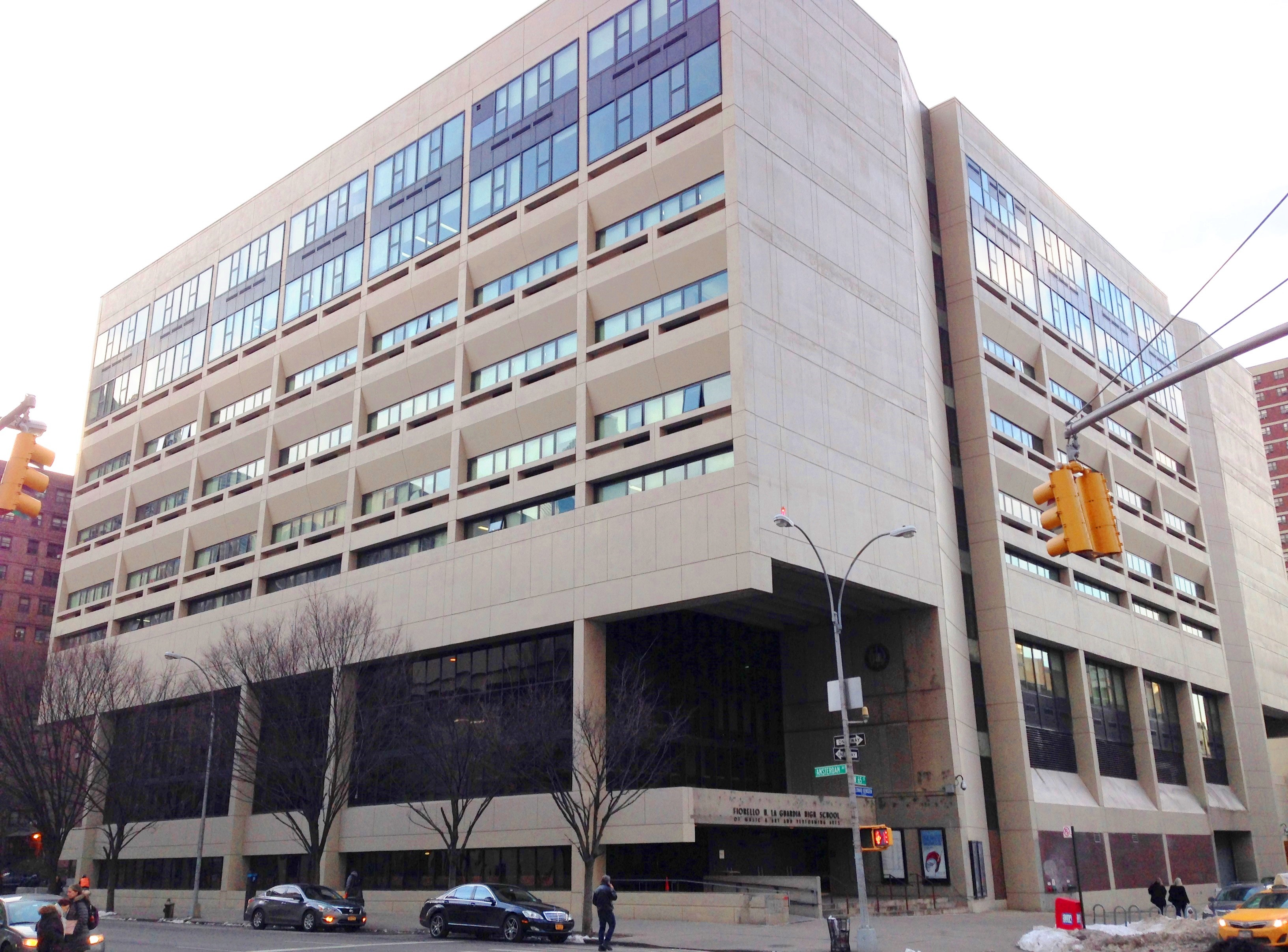 Fiorello H. LaGuardia High School of Music & Art and Performing Arts is a high school specializing in teaching visual arts and performing arts, situated near Lincoln Center in the Lincoln Square neighborhood of the Upper West Side, Manhattan, New York City. Located at 108 Amsterdam Avenue between West 64th and 65th Street, the school is operated by the New York City Department of Education, and resulted from the merger of the High School of Music & Art and the School of Performing Arts. The schools merged on paper in 1961, but were not combined into a single building until 1984. Completion of the concrete building, designed by Argentine architect Eduardo Catalano, was held up by the city's fiscal crisis in the 1970s.